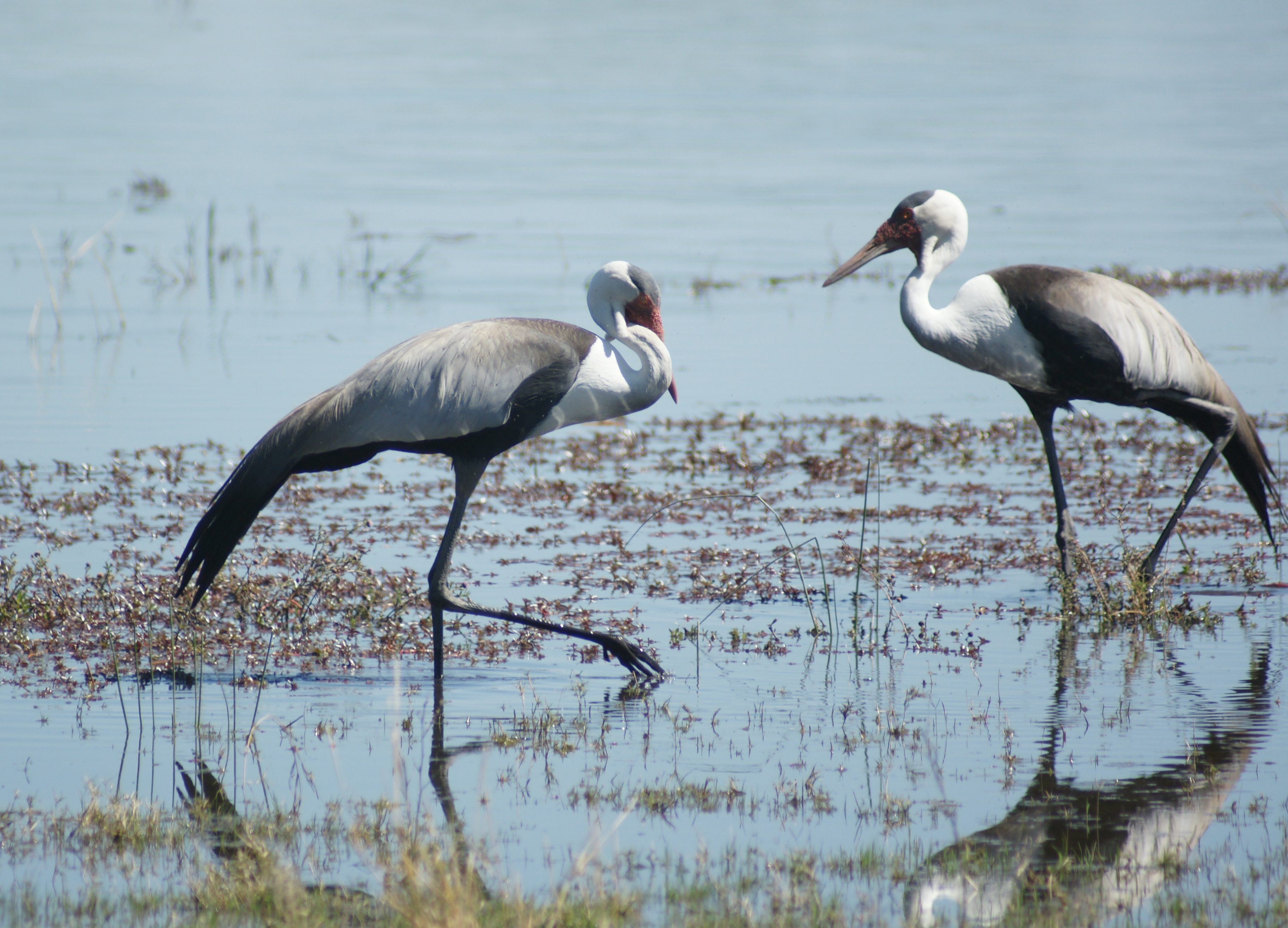 Wattled Crane Grus carunculata, Moremi National Park, Botswana